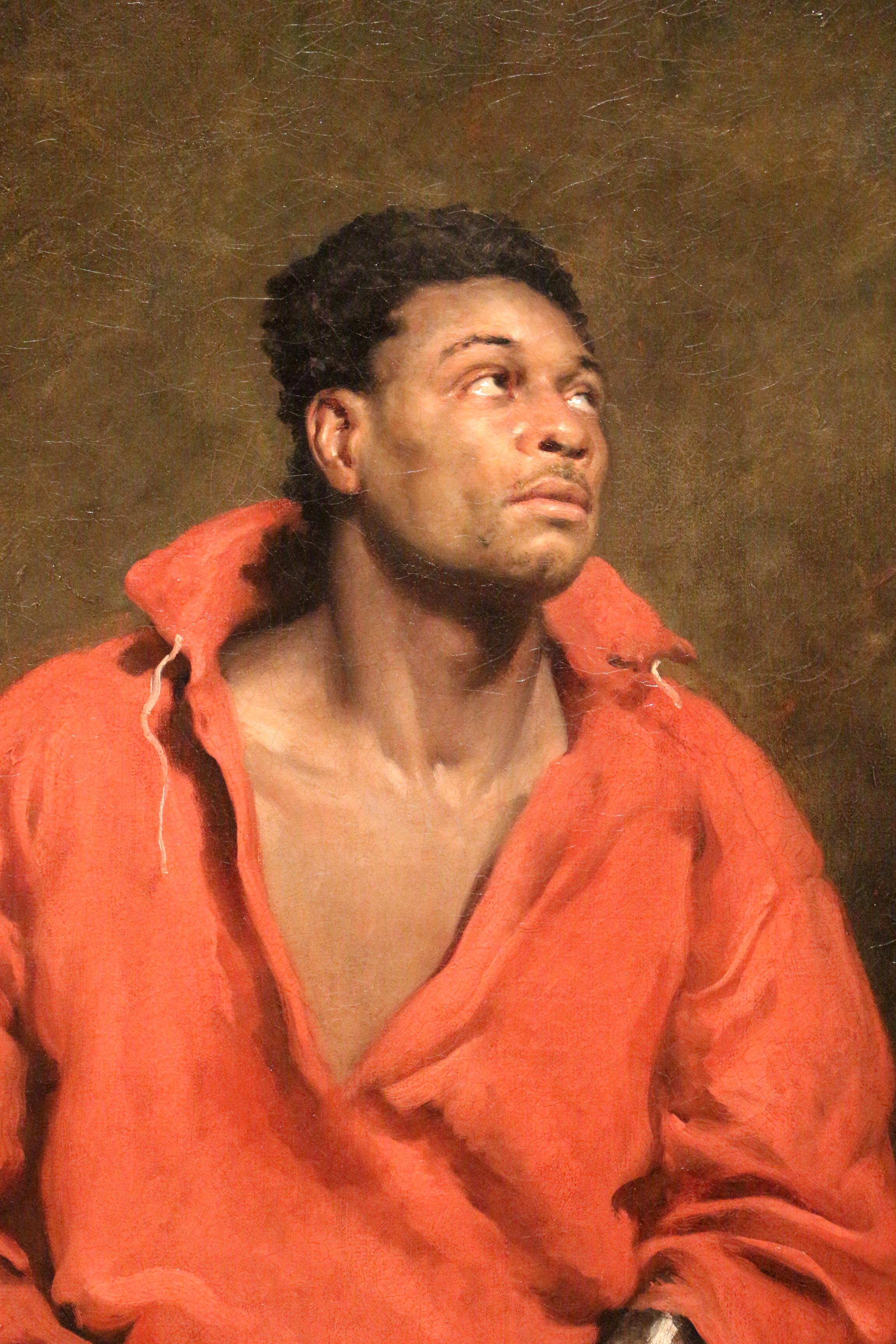 English paintings in the Art Institute of Chicago